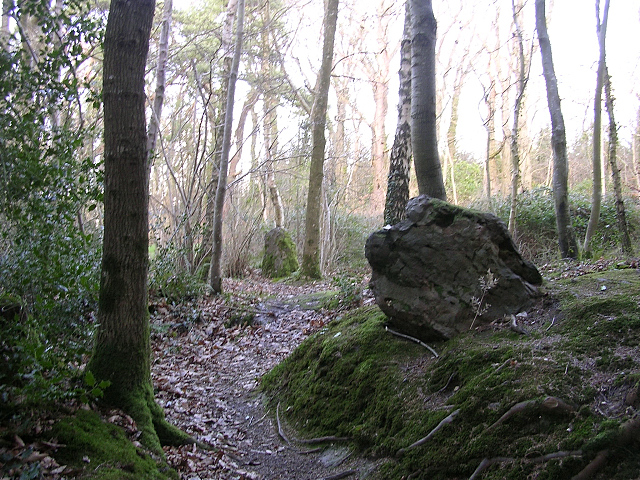 Part of the Rempstone stone circle in birch woodland, Purbeck. About half of this stone circle remains amongst the trees to the south of the Studland-Corfe Castle road (B3351).